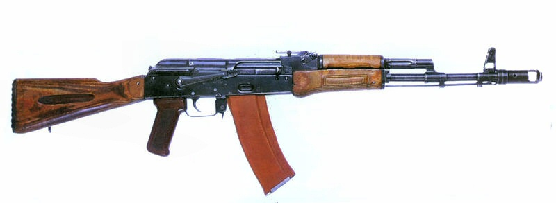 AK-74 assault rifle